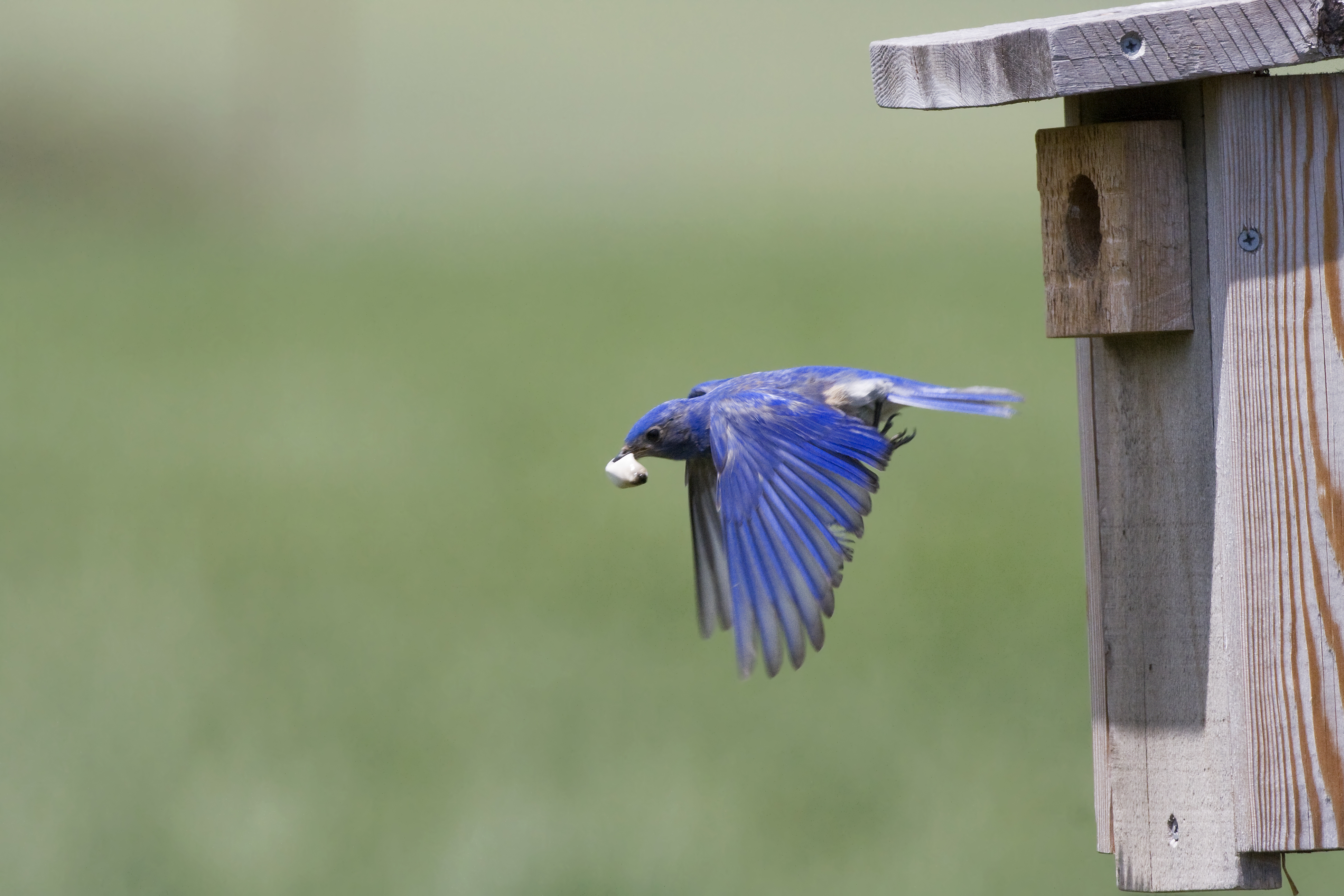 An adult Western Bluebird removing a fecal sac from the nestbox in Los Osos, California, USA.